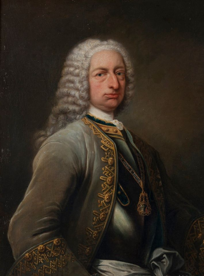 Portrait of Victor Amadeus I, Prince of Carignano (1690-1741)